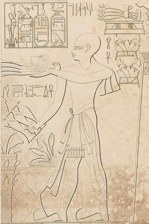 Drawing of the Theban High Priest of Amun Herihor, depicted on a relief. From Karnak, Temple T of Khonsu (forecourt D, lower east wall, part A), 20th Dynasty, New Kingdom.